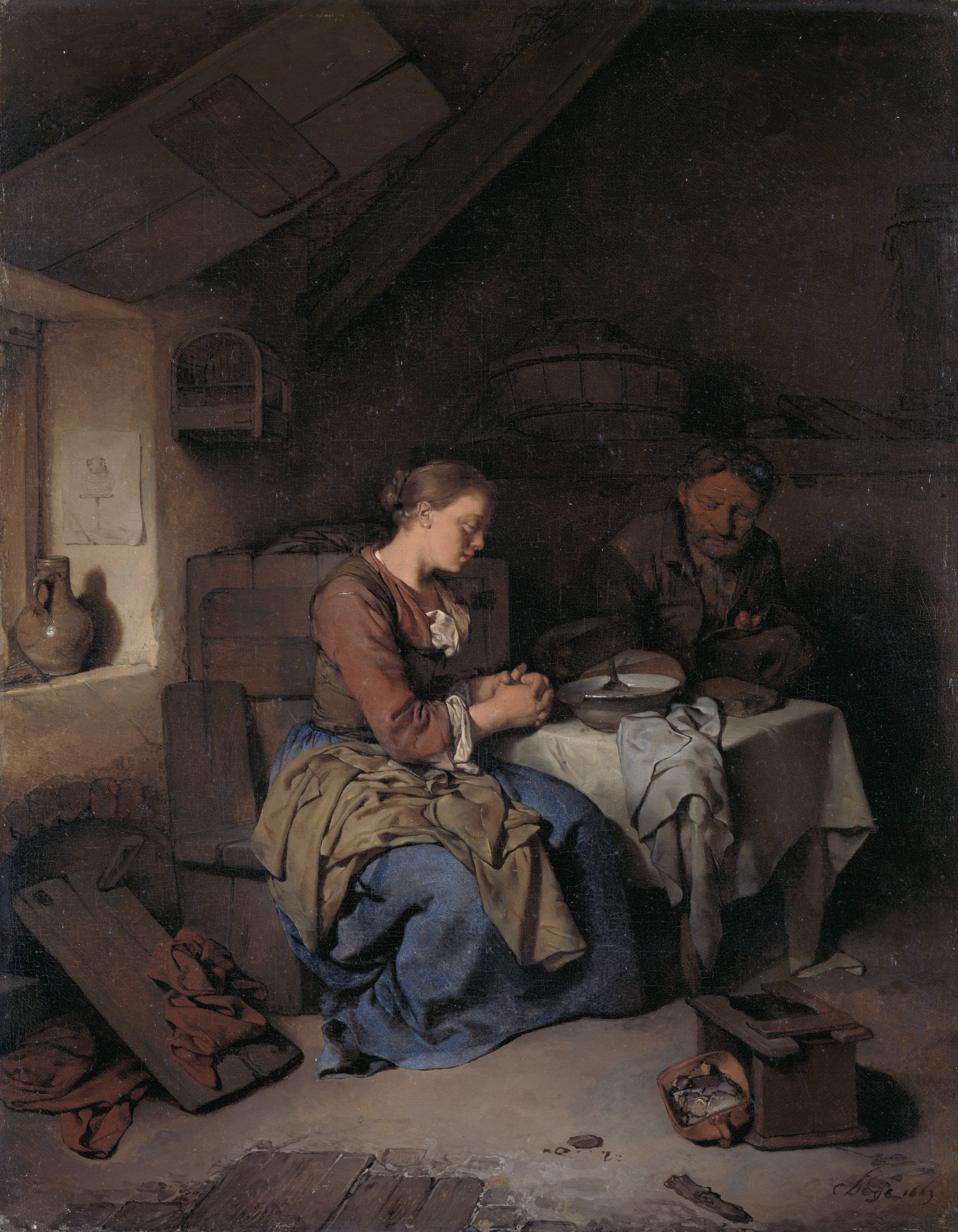 Interior of a farmhouse with and old man and a young woman praying at a table. On the floor a footstove with a coal pan. In the window a jug. On the wall a print and a birdcage.